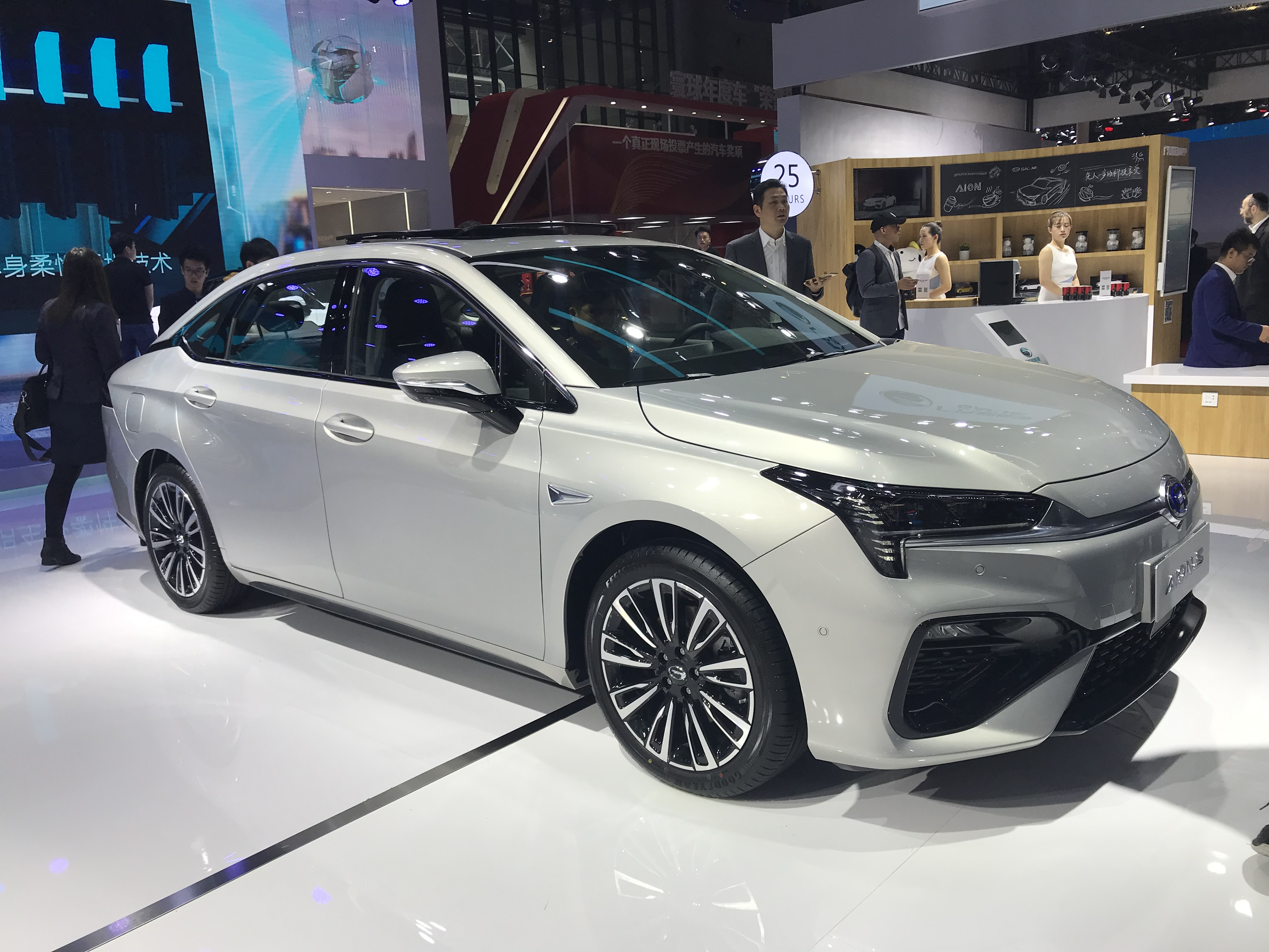 GAC Aion S front